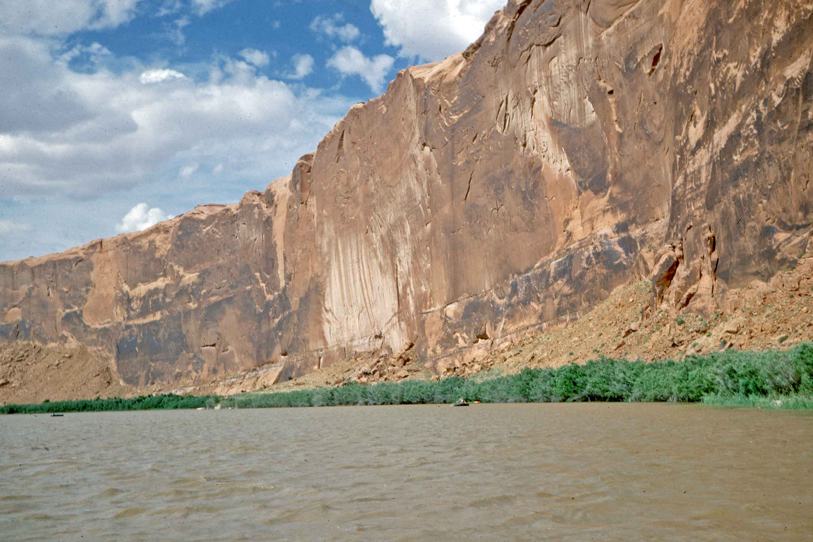 This is a downstream view of a cliff known as Tapestry Wall taken in 1954 before the construction of Glen canyon Dam.